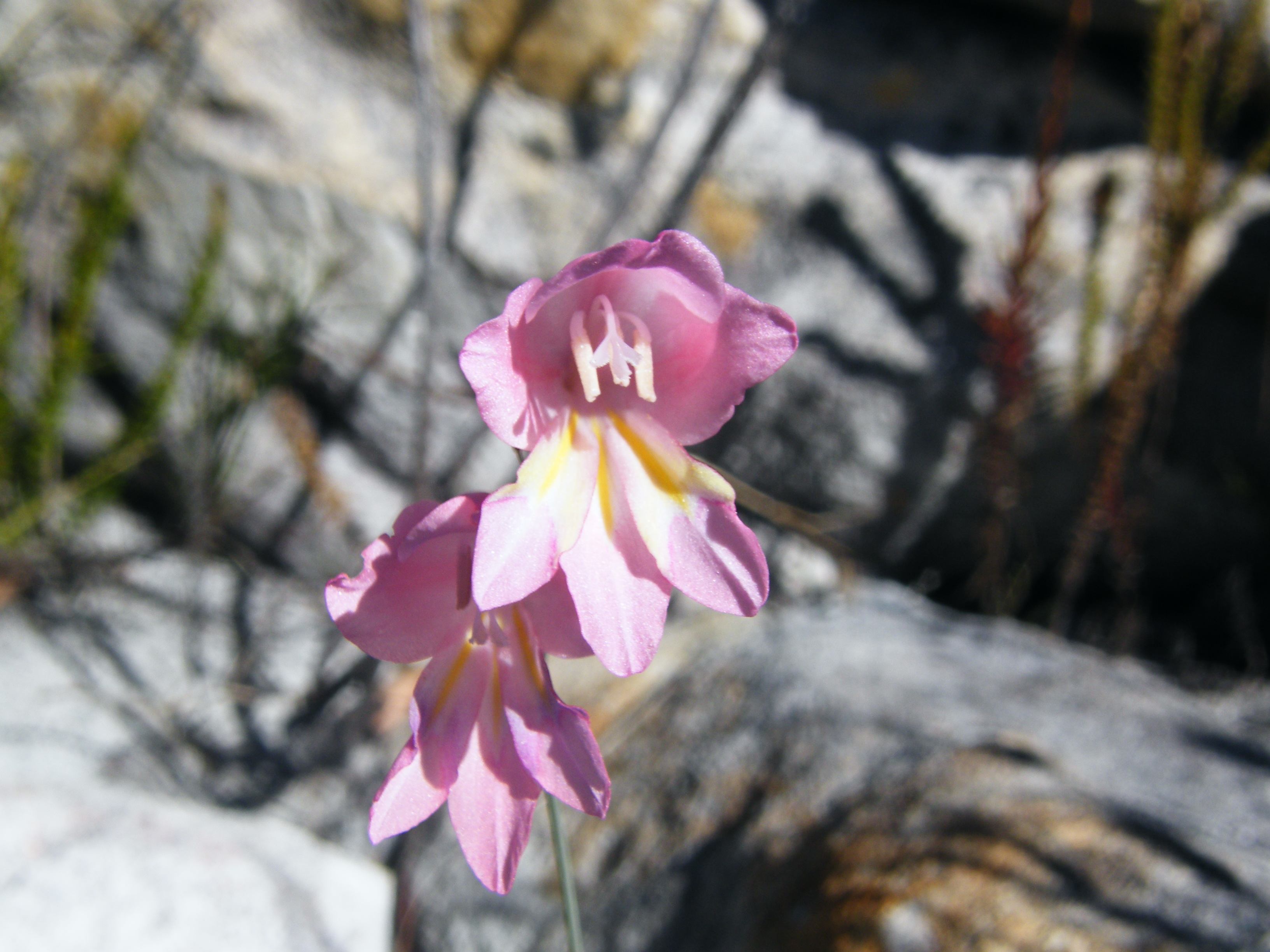 Autumn pipes